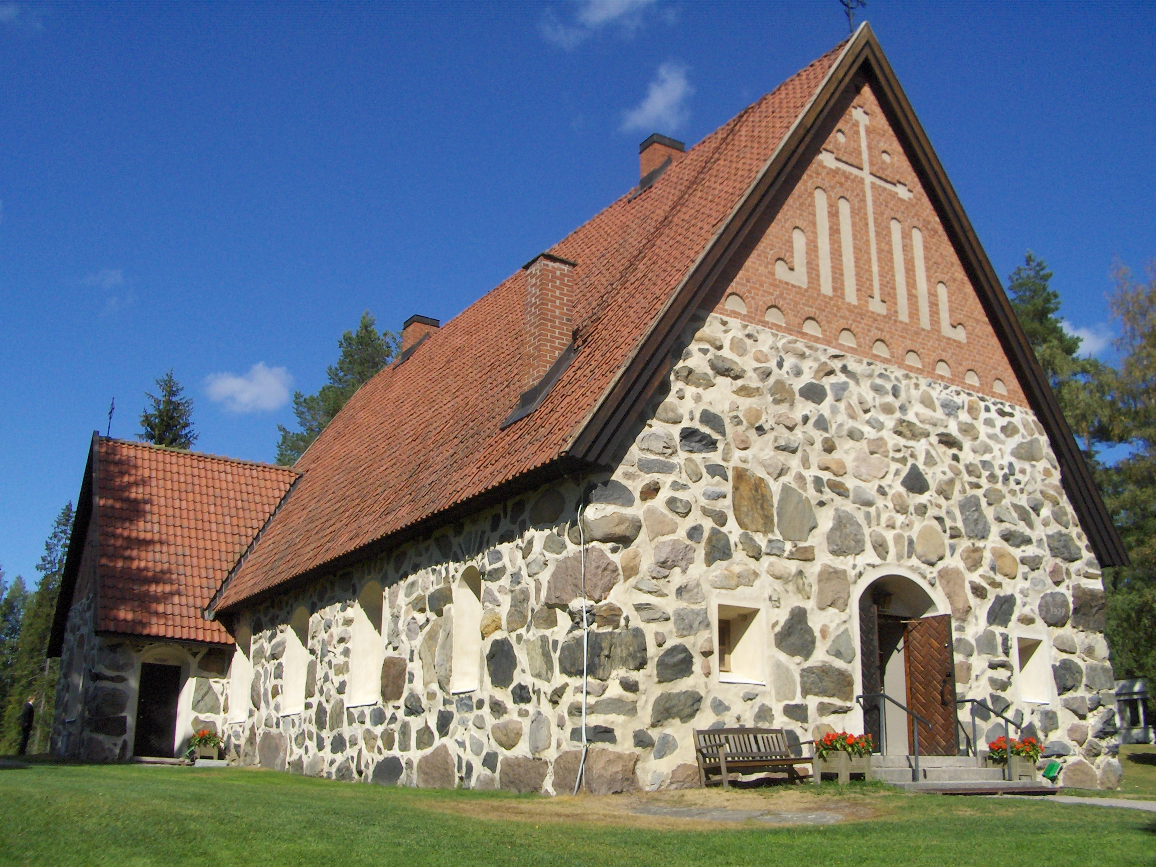 Aitolahti old church in Tampere, built in 1927-1928 [1]